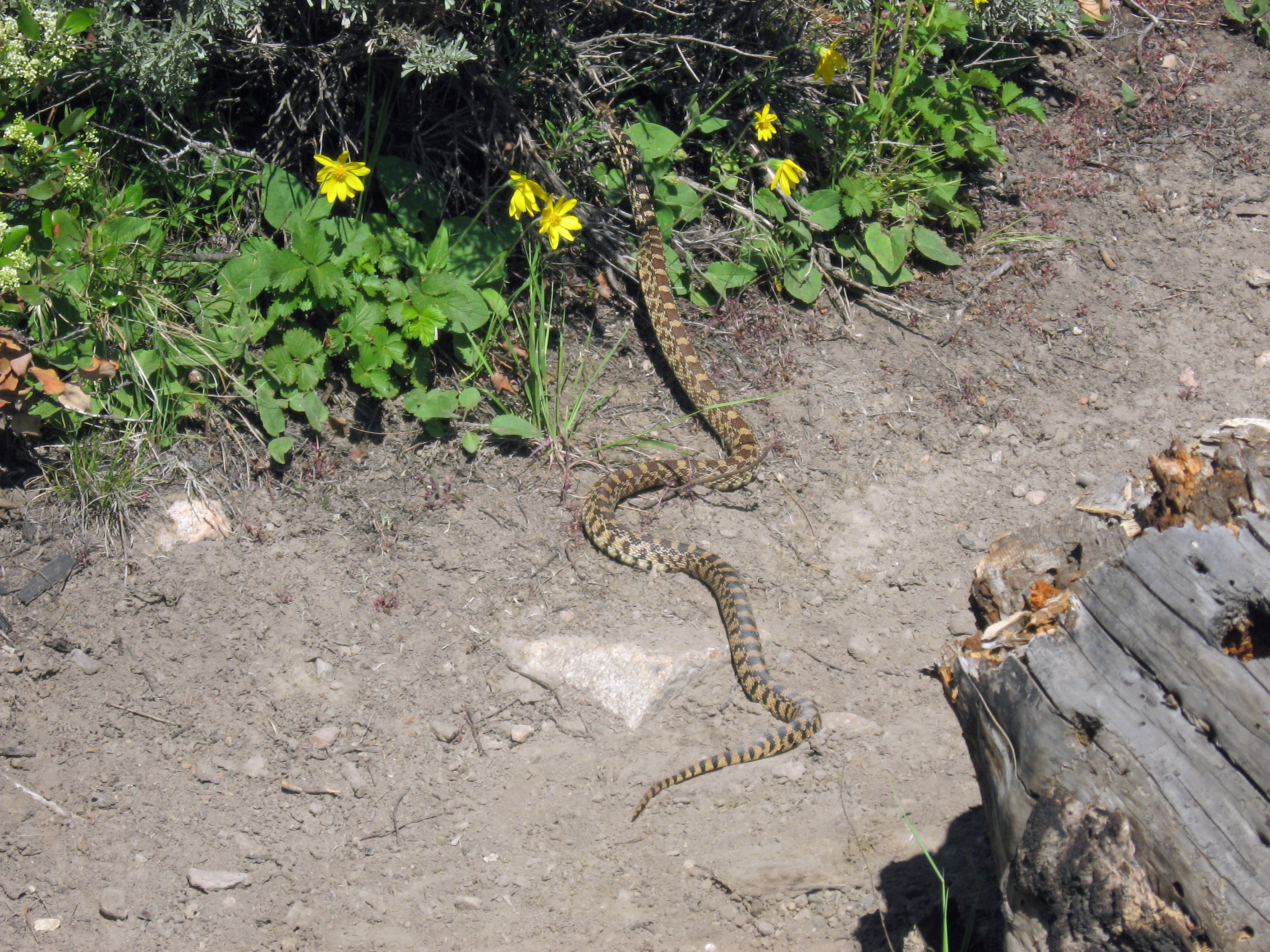 A Great Basin gopher snake (Pituophis catenifer deserticola) in the Sawtooth National Recreation Area, Idaho